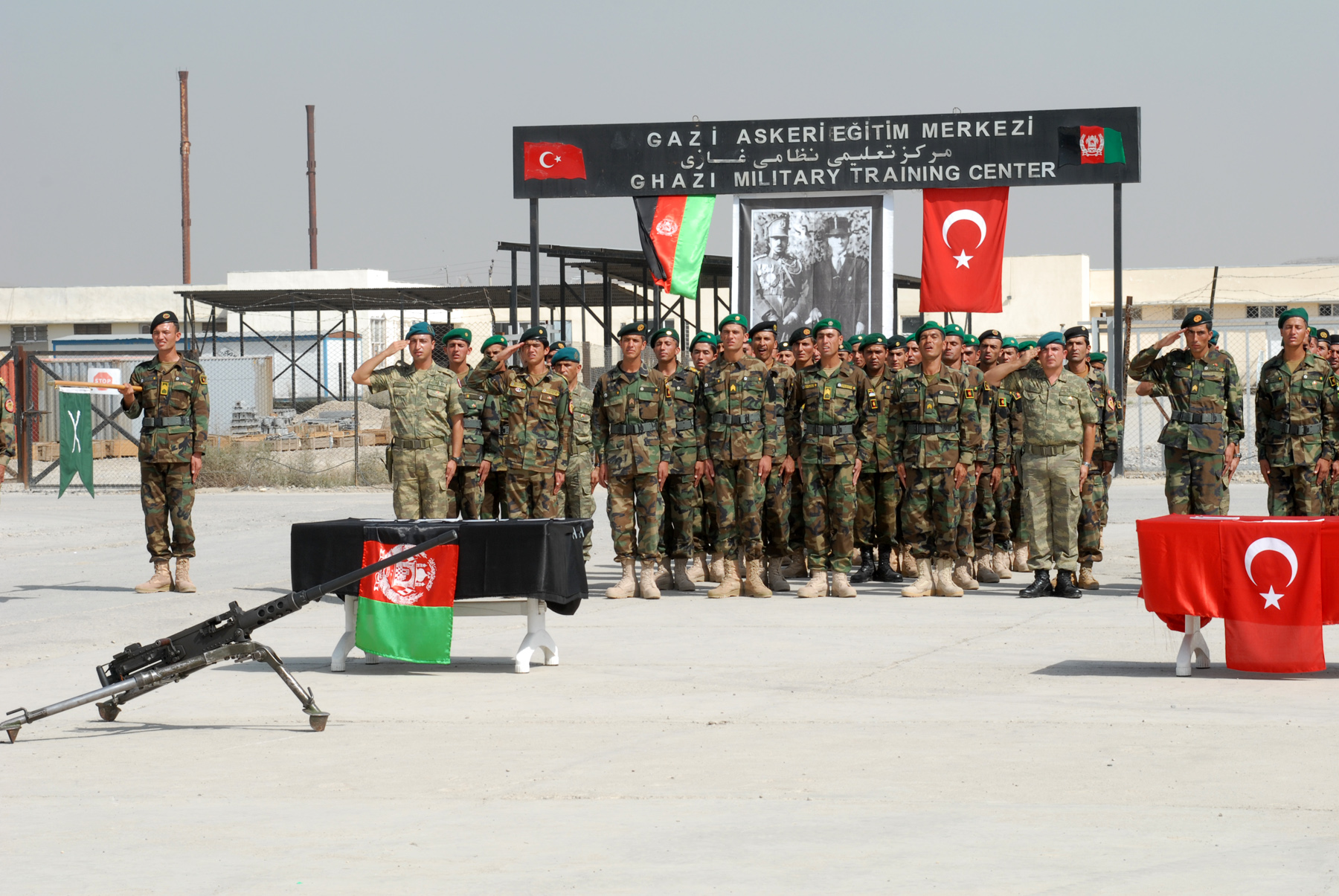 KABUL, Afghanistan -- Non-commissioned officers salute during a graduation ceremony welcoming them into the Afghan National Army, Sept. 6, 2010. The graduation was the culmination of combined basic and NCO training courses led for the first time by Turkish Army instructors. (U.S. Air Force photo/Staff Sgt. Laura R. McFarlane/Released)